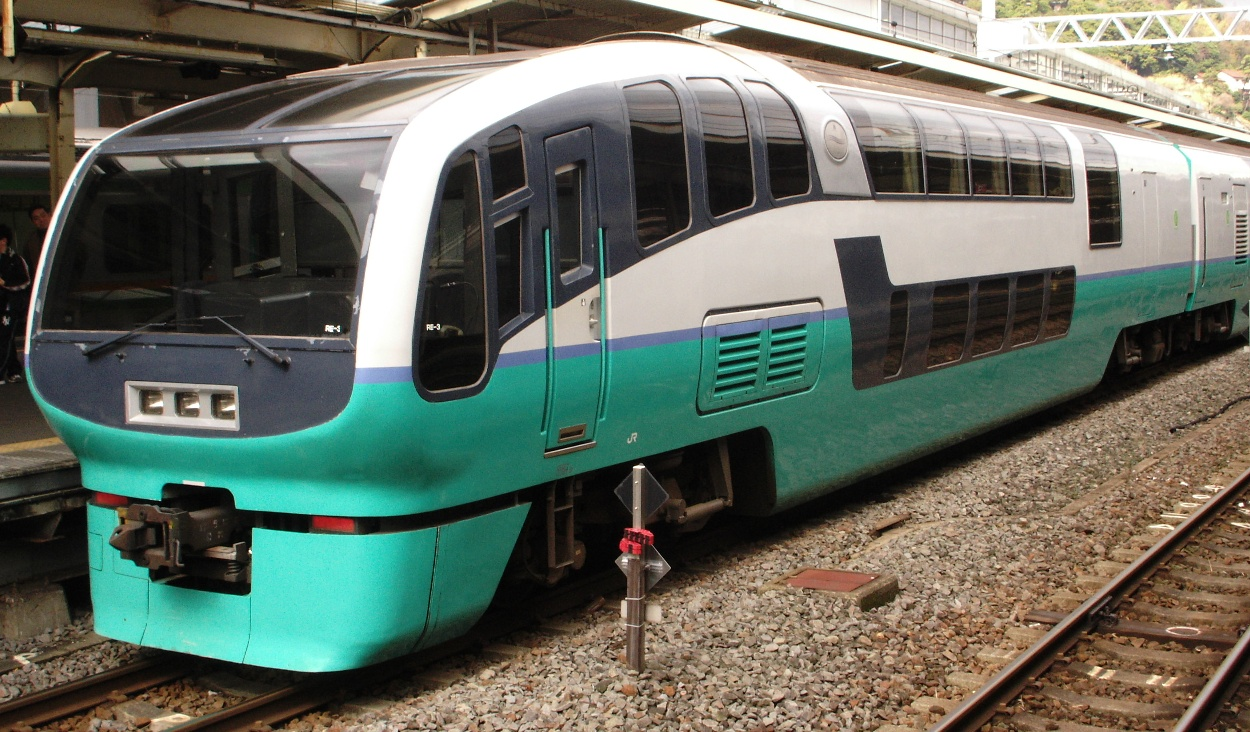 JR East 251 series EMU KuRo 250 car (car 1) at Atami Station